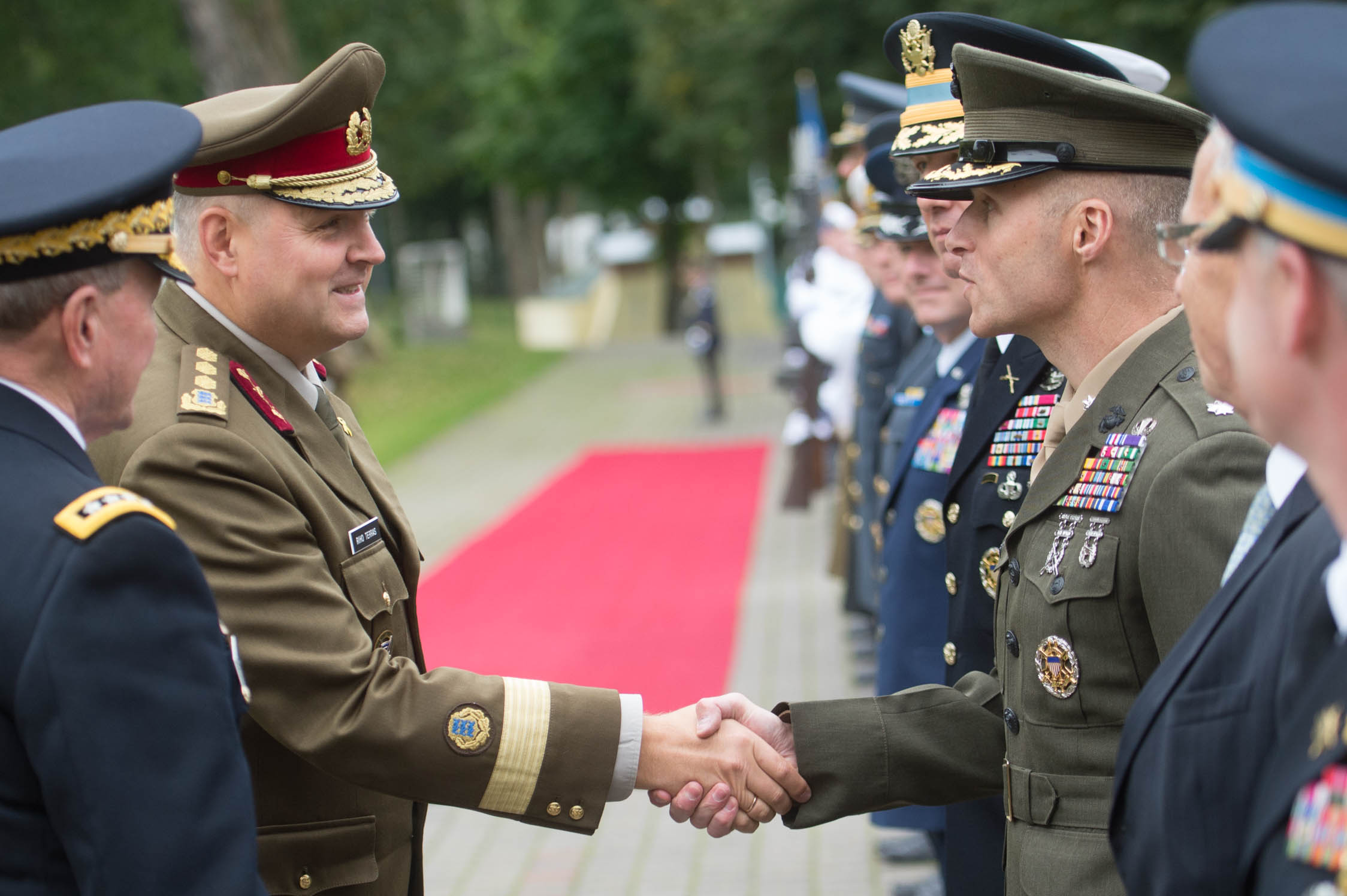 U.S. Gen. Martin E. Dempsey, introduces members of his staff to Estonian Lt. Gen. Riho Terras, Commander of Estonian Defense Forces, at the Estonian Defense Forces Headquarters in Tallinn, Estonia, Sep. 14, 2015.